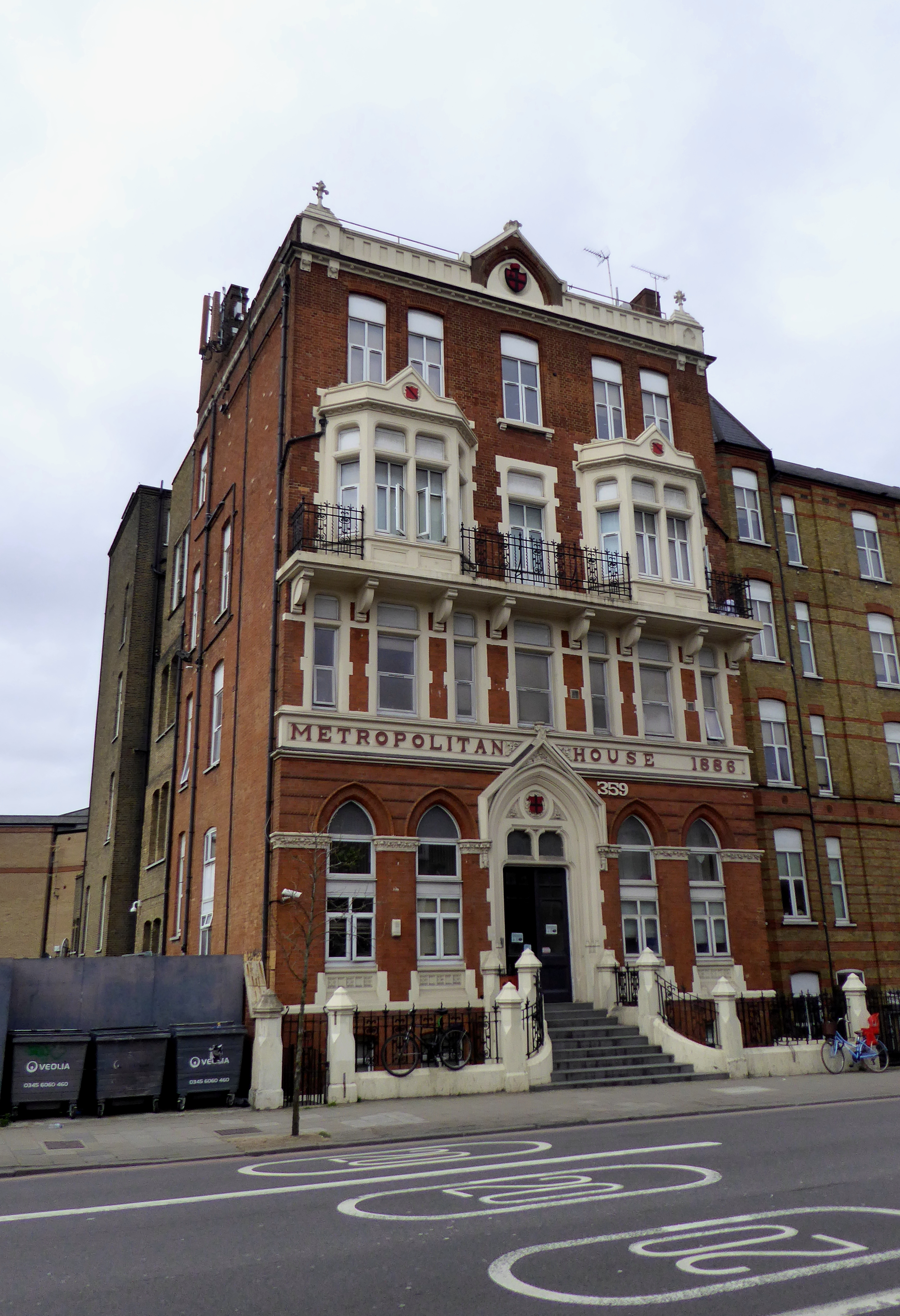 The building that once housed the Metropolitan Free Hospital, on Kingsland Road, Dalston.